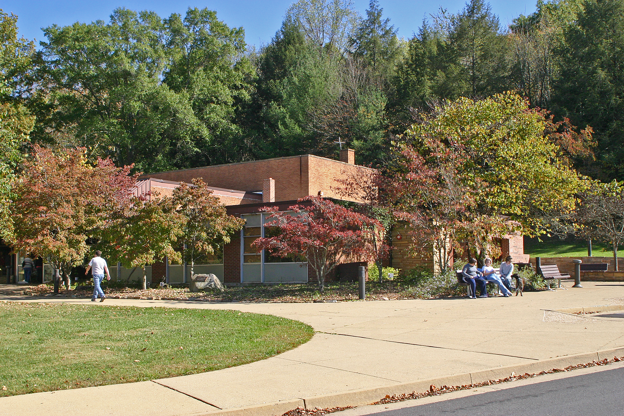 The visitors center at the Cumberland Gap National Historical Park in 2008